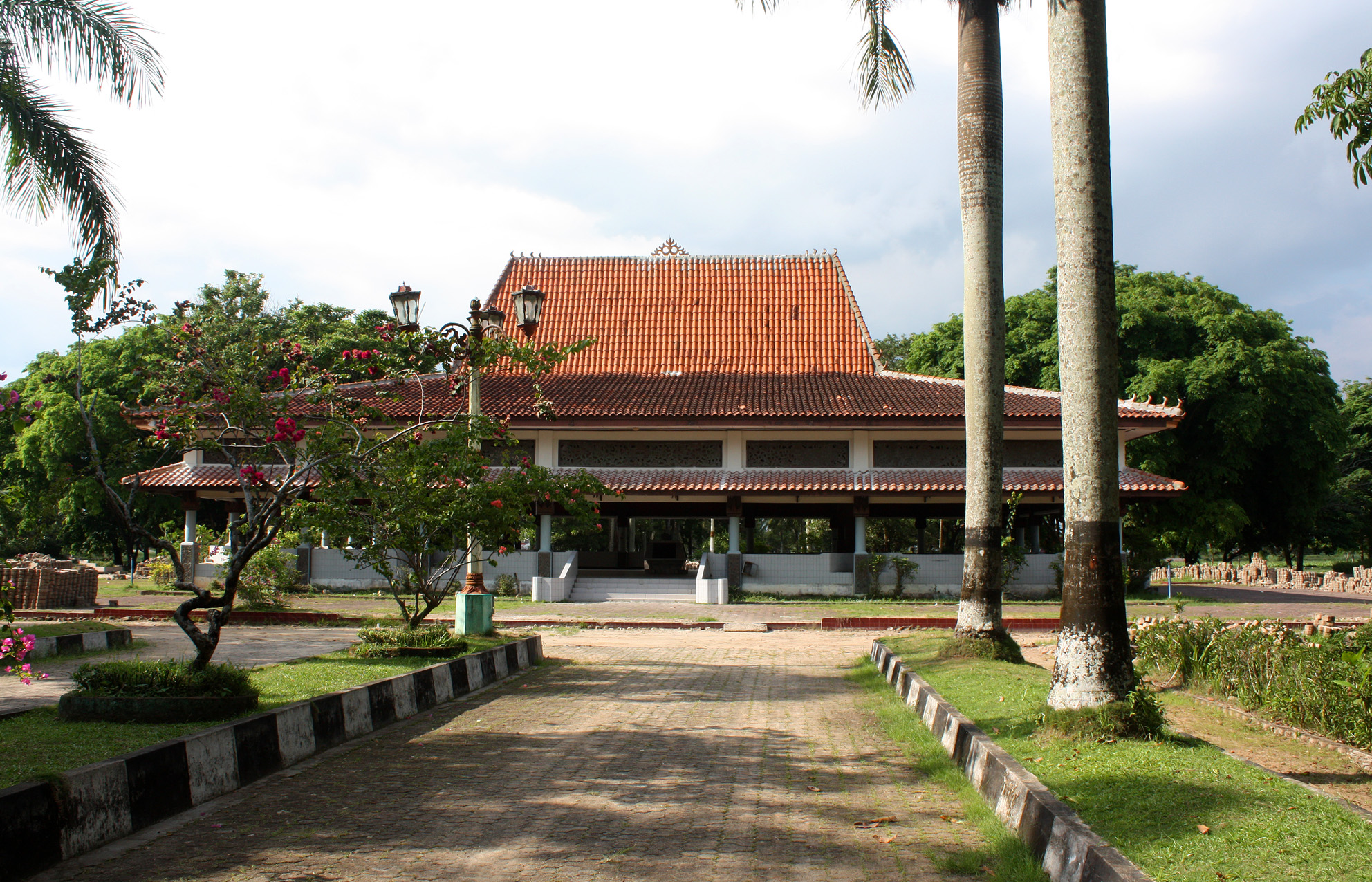 Main pavilion in Limasan house traditional architecture. Srivijaya Archaeological Park, Palembang, South Sumatra, Indonesia. The main pavilion host the replica of Kedukan Bukit inscription.